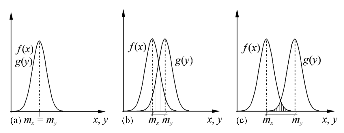 Normal distributions of two random variables X, Y for three locations of their means μx, μy